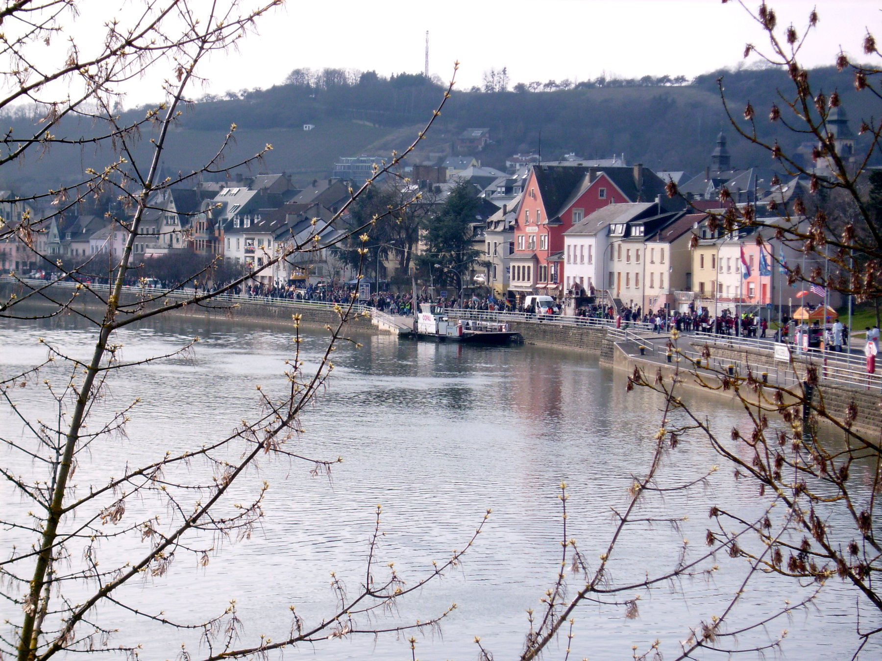 Moselle-bank at Wasserbillig (Luxembourg) in the springtime sun